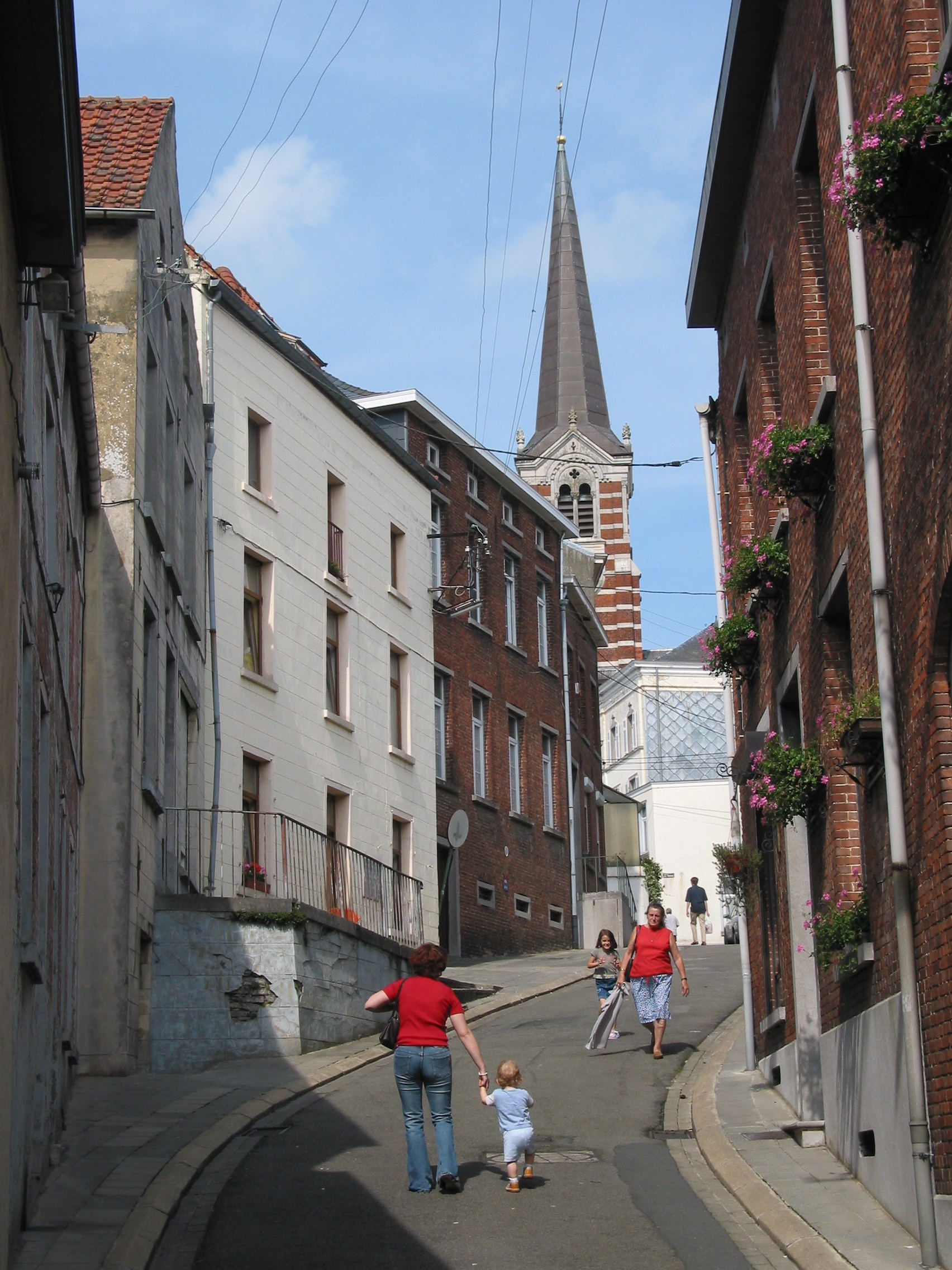 Rebecq (Belgium), Life scene in the Grand'Place street.